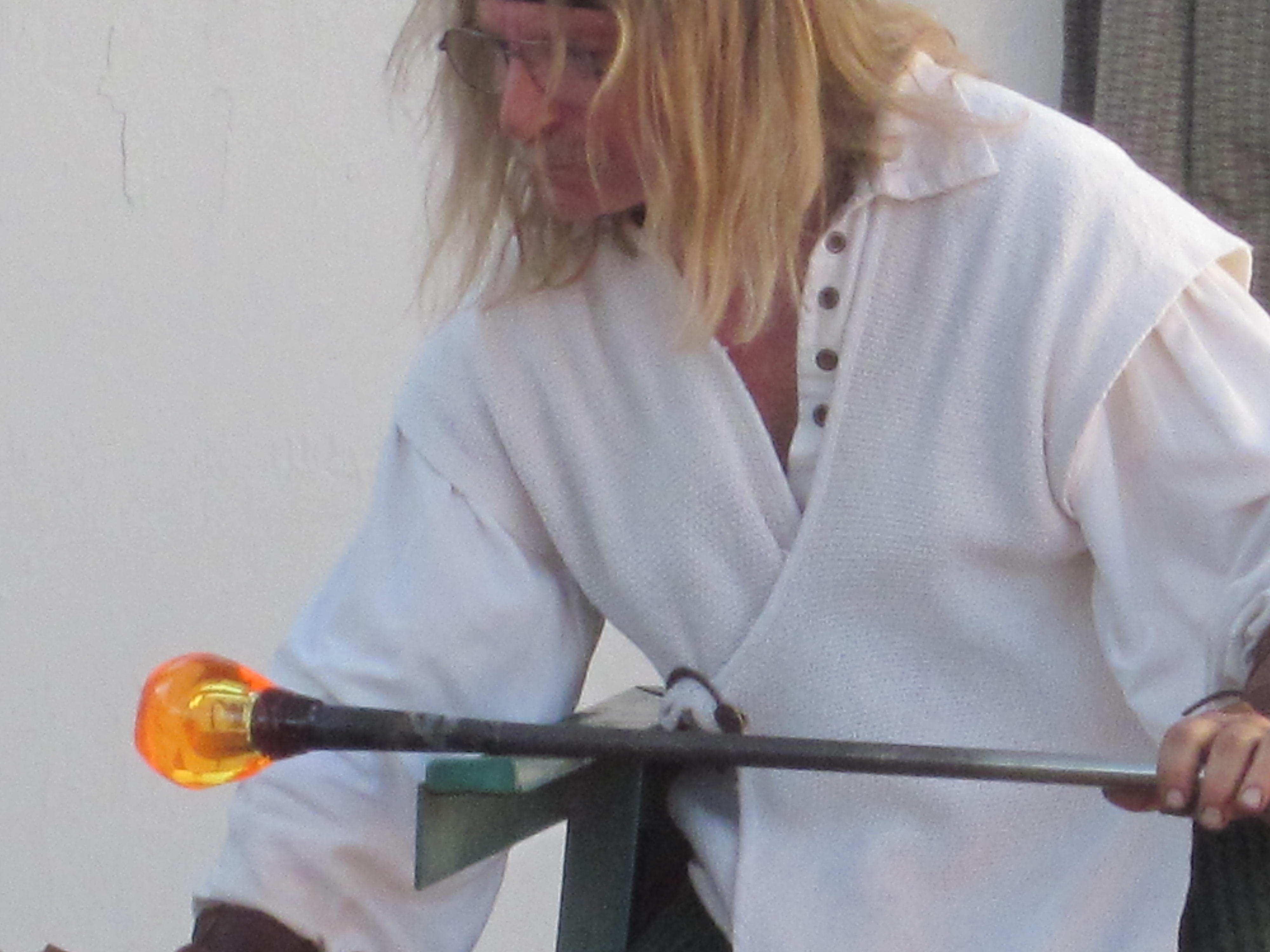 A glassblowing demonstration at the Northern California Renaissance Faire in Santa Clara County.